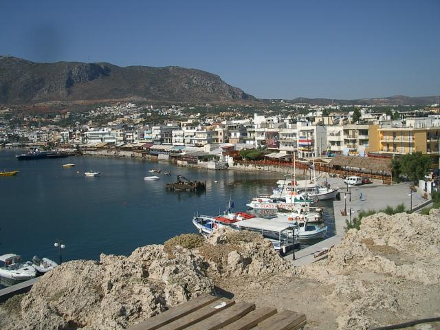 Hersonissos Harbour, Crete, Greece